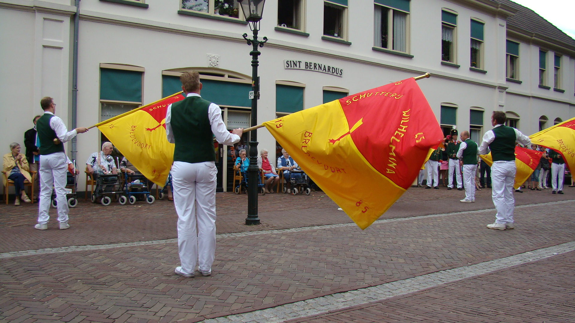 Schutterij Wilhelmina Bredevoort (netherlands)